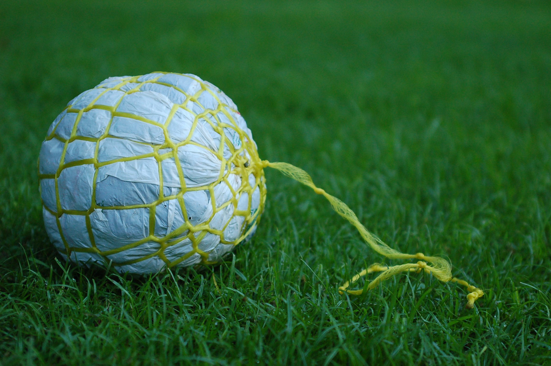 Garbage ball made out of plastic and twine. Found all over Africa, these are the balls that children create out of old trash to play soccer.